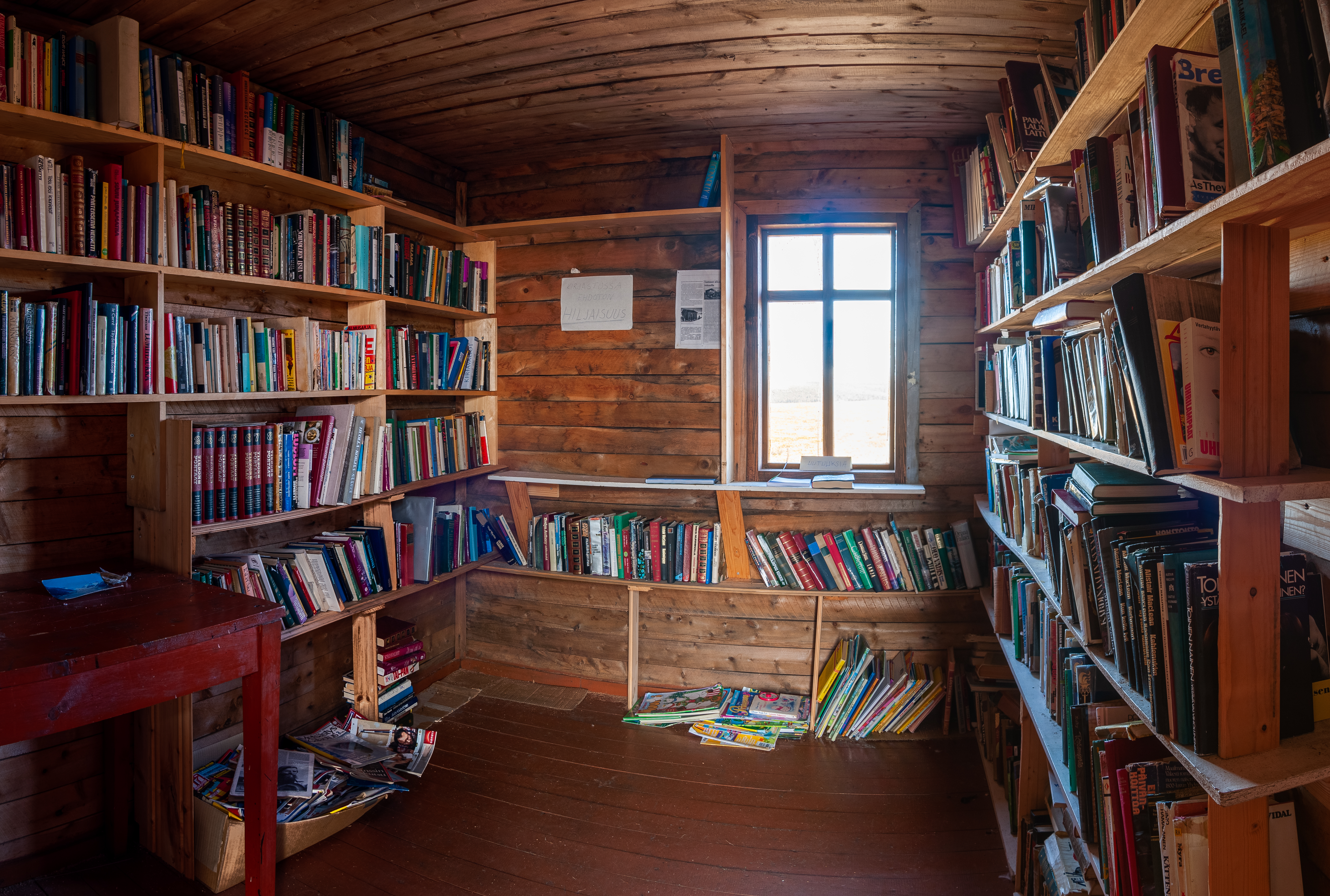 Karhu-Korhonen library in Lemmenjoki National Park in Inari, Finland.